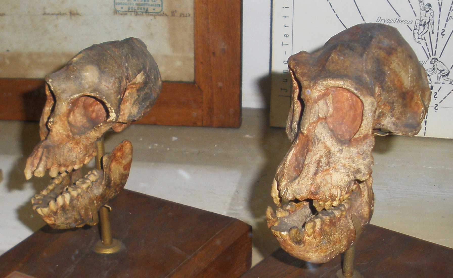 Fossil of Mesopithecus pentelici, an extinct primate